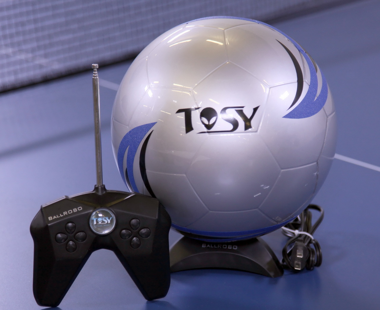 TOSY BallROBO Ball ROBO Robot